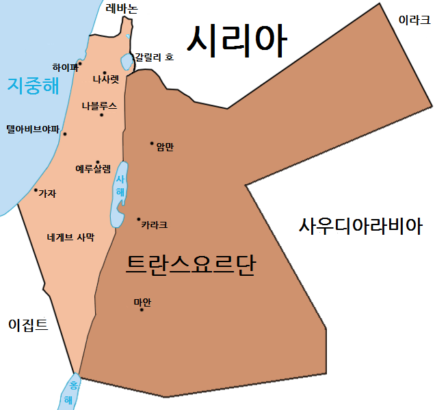 Map of the British Mandate of Palestine and Transjordan.